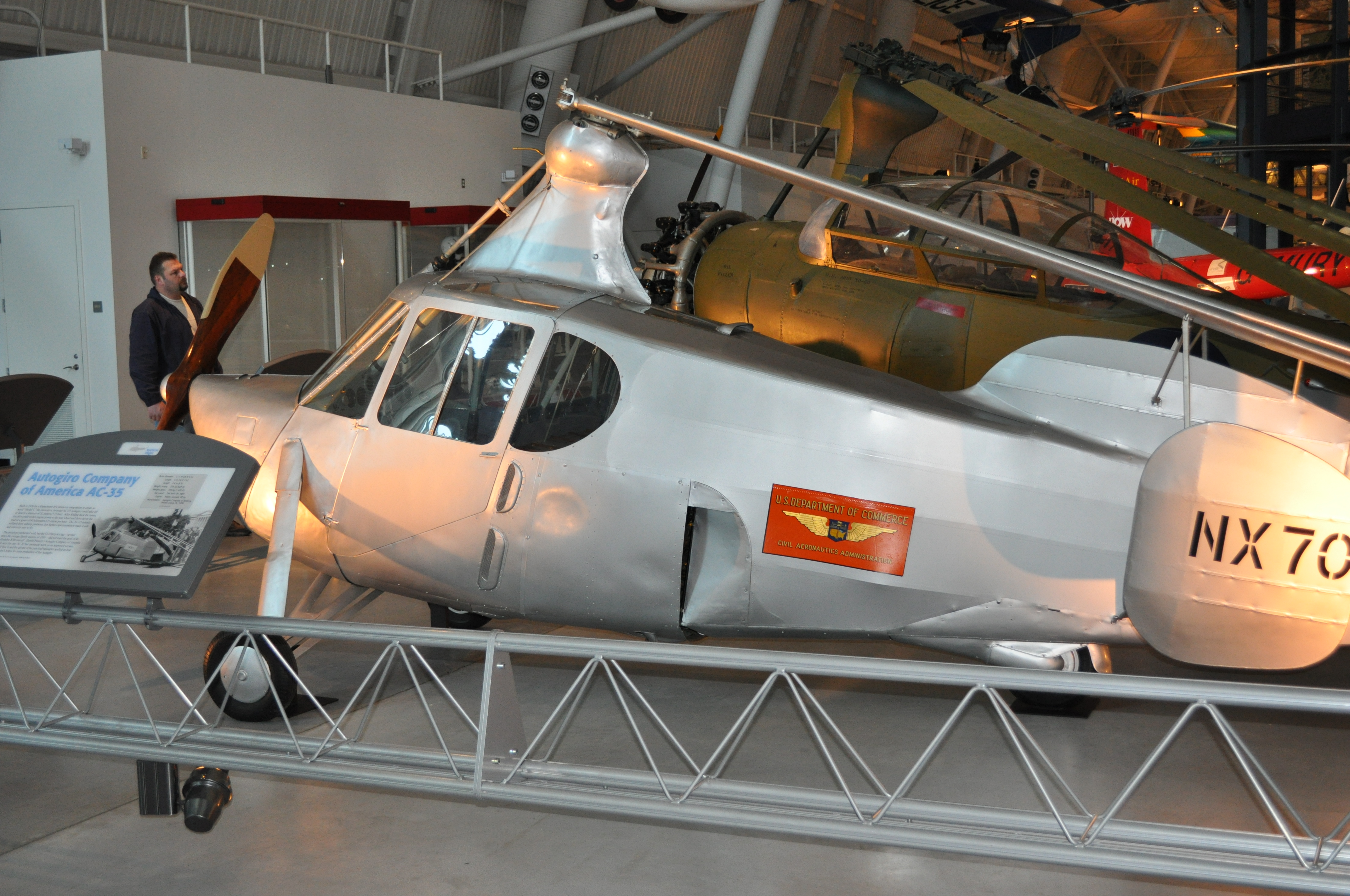 Autogiro Company of America (Pitcairn Autogiro Company) AC-35 (NX70), Steven F. Udvar-Hazy Center of the Smithsonian National Air and Space Museum